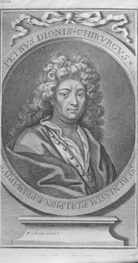 ArtistUnknown after BoulogneTitlePetrus Dionis Chirurgus serenissimae Delphinae primariusDescription Portrait of Pierre Dionis, chirurgien du roi Date1707MediumEngravingCurrent locationBIU Santé, ParisObject historyPublished in a book by Pierre Dionis, Cours d'opération de chirurgie démontrées au Jardin Royal, Paris : L. d'Houry, 1707Source/PhotographerBIU Santé Digital Library Portrait of Pierre Dionis, chirurgien du roi